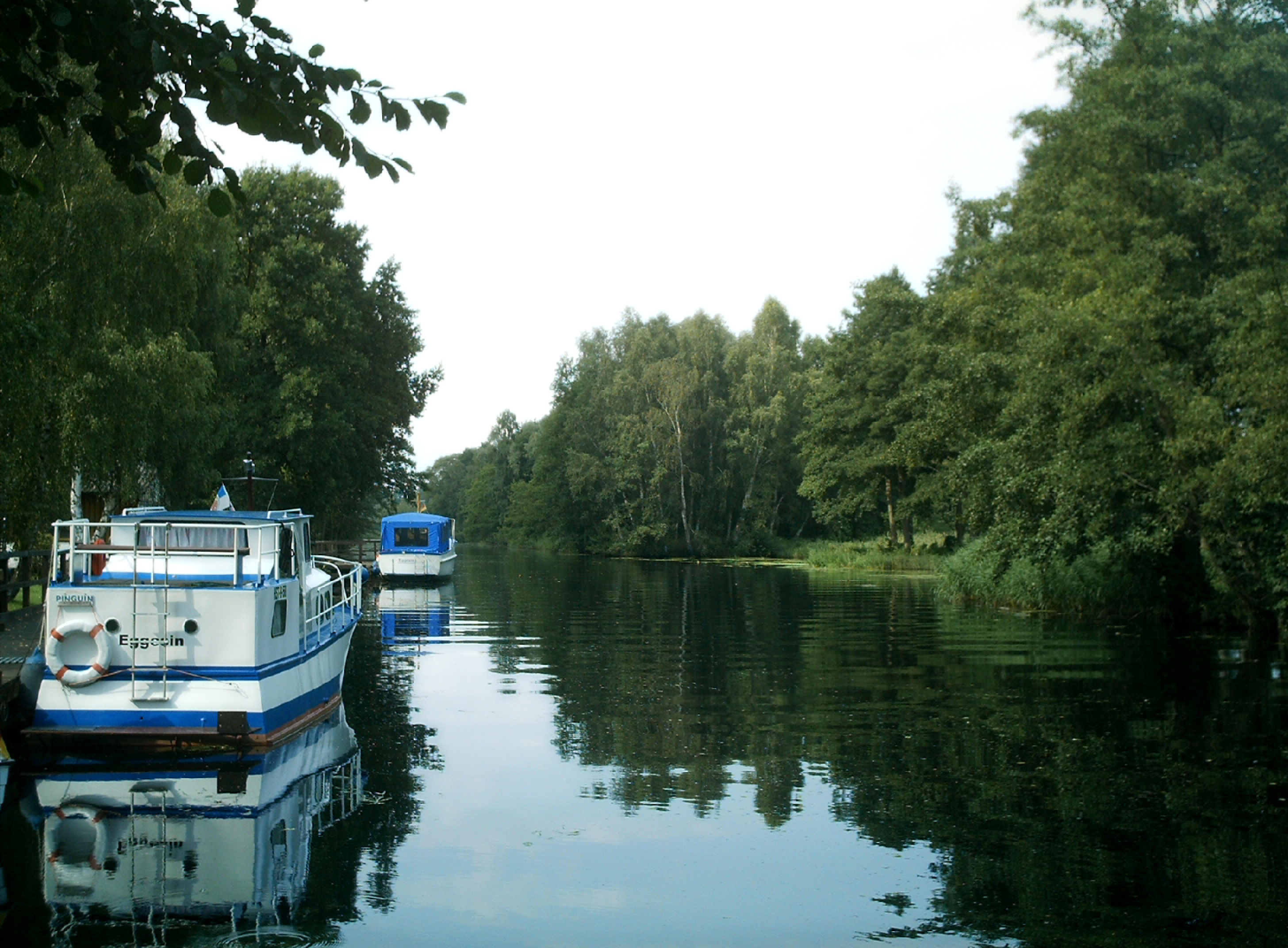 Randow mit Booten